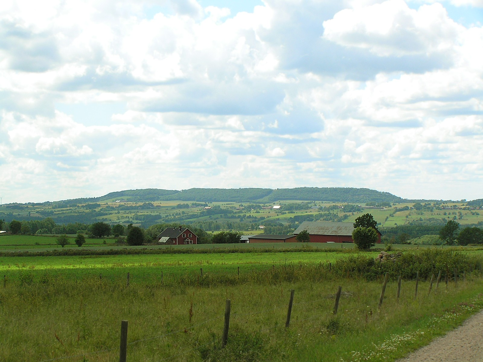 Ålleberg mountain, Sweden, from the northeast and across Åsle valley.